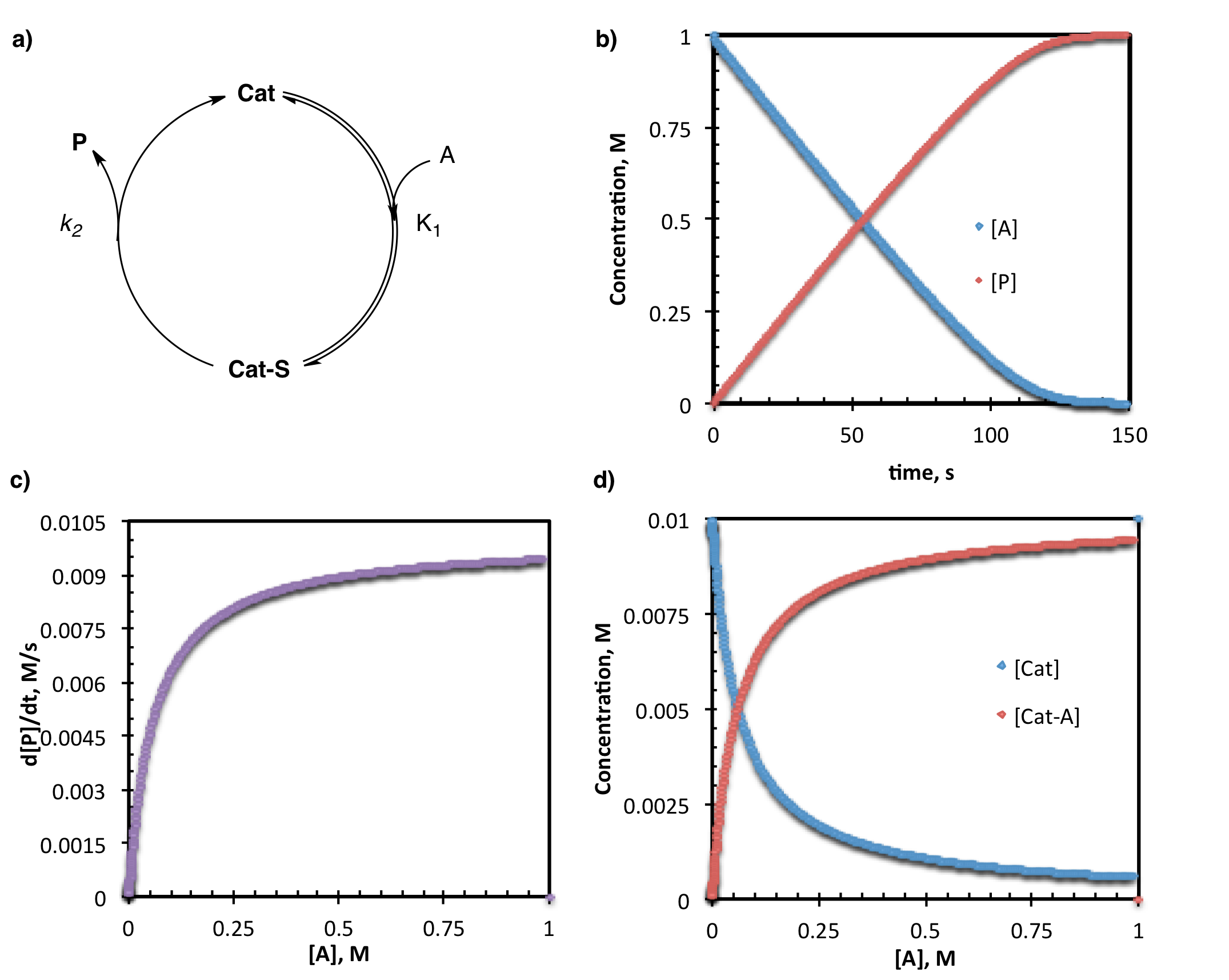 a) The simplest case of saturation kinetics extends from the pre-equilibrium situation in which rapid substrate complexation with a catalyst is followed by slow formation of the product. b) The straight line for substrate concentration over time is indicative of a zero-order dependence on substrate for most of the reaction. c) Saturation of the catalyst is apparent at high concentrations of substrate (where the rate has no dependence on [A], but as substrate is consumed, the reaction rate drops with a first-order dependence on [A] to pass through the origin. d) The catalyst resting state is further indicative of saturation, as the catalyst exists almost entirely as the substrate-bound complex at high [A]. The data used to generate these plots were obtained by kinetic simulations with CopasiIU free software using the arbitrary rate constants K1=k1/k-1=100/5 and k2= 1 (1/s)